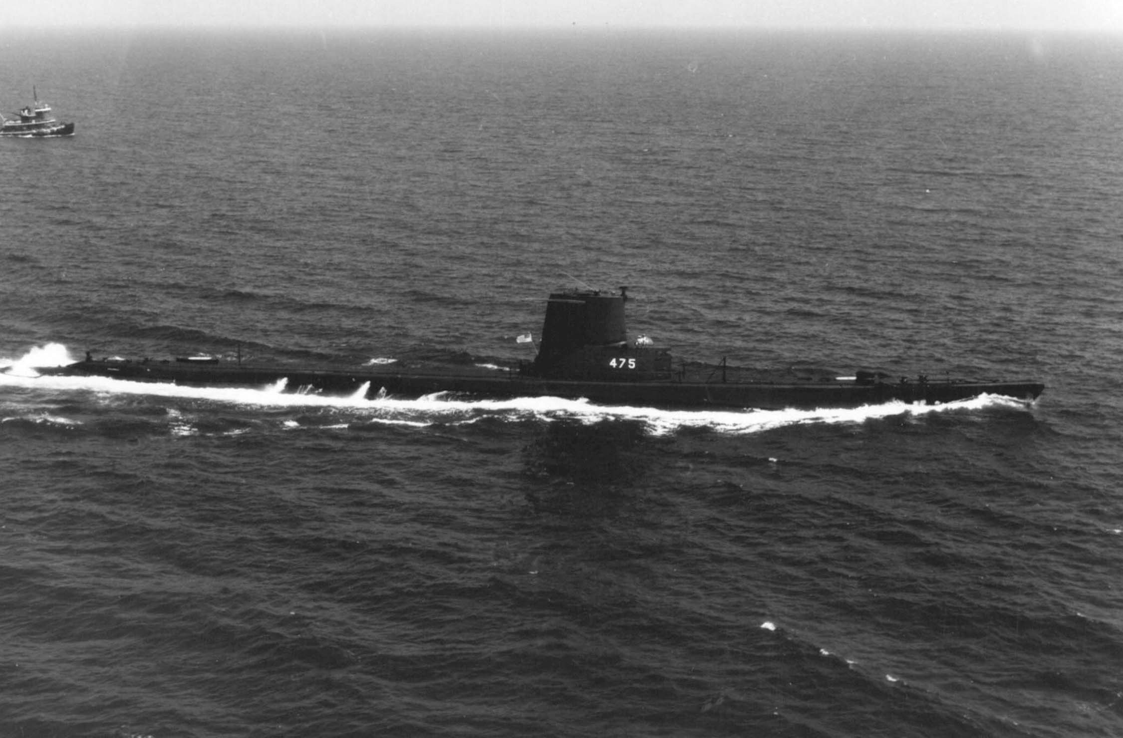 The United States Navy submarine off the United States East Coast.